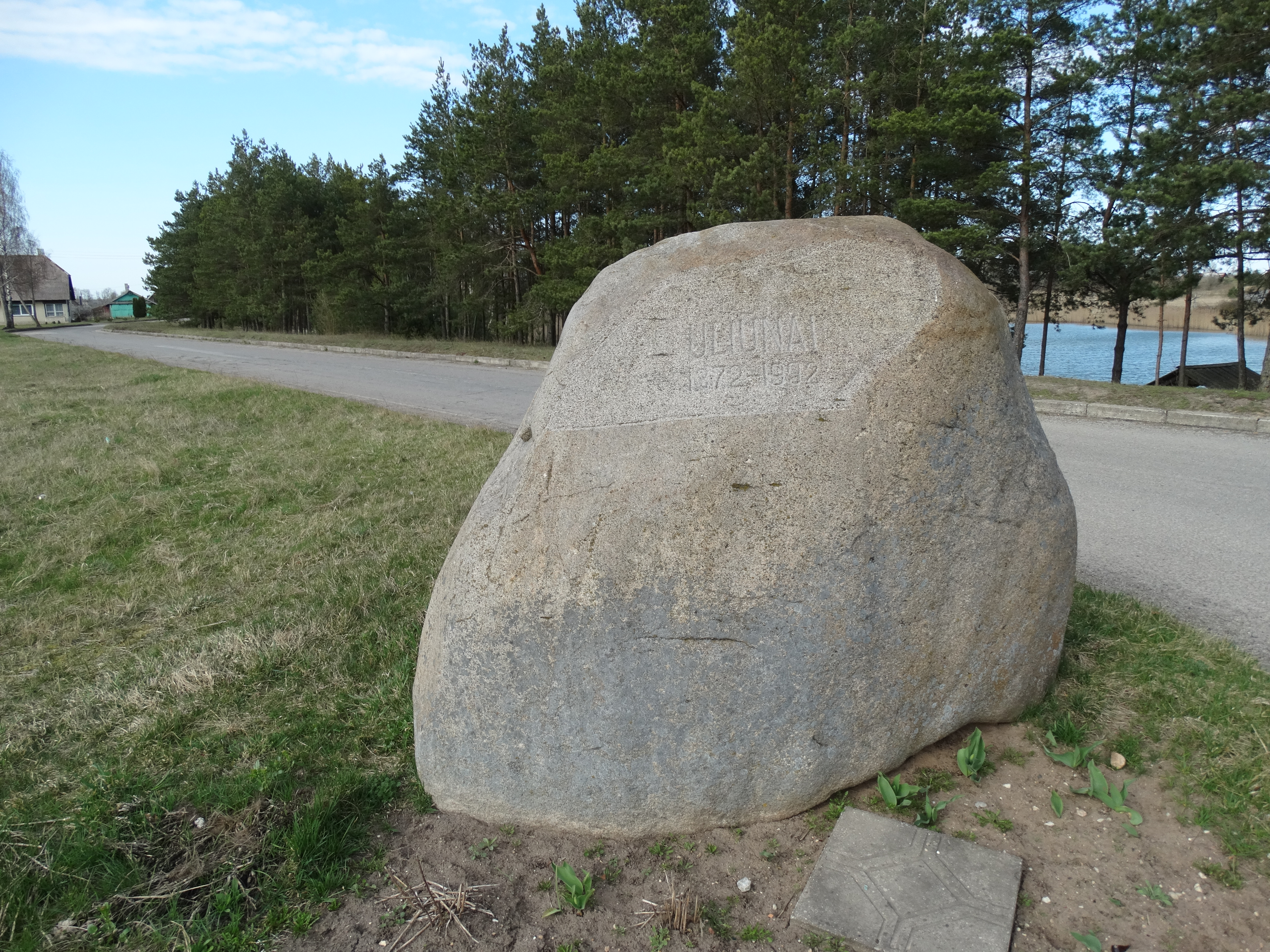 Stone, Uliūnai, Panevėžys District, Lithuania